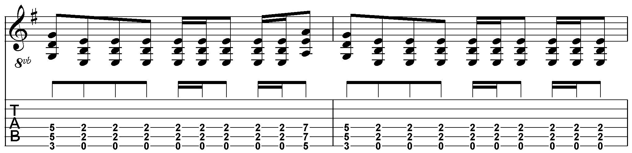 Guitar rhythm of the song Du hast